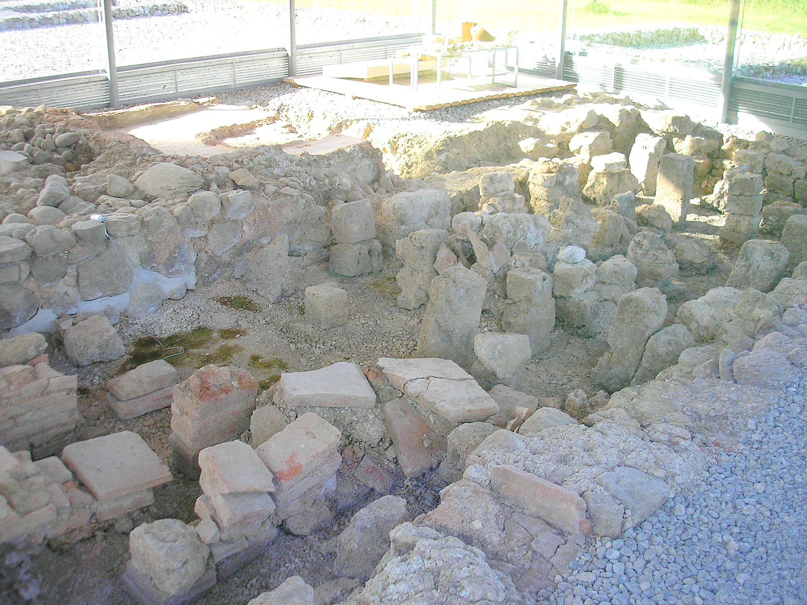 Roman Villa rustica near Leutstetten (Stadt Starnberg, Upper Bavaria, Germany). Underfloor heating (Hypocaustum) at the main building